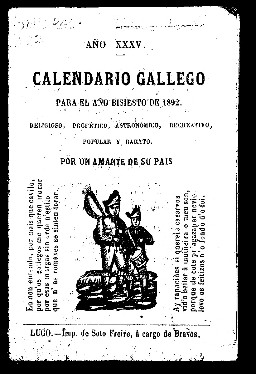 Portada do Calendario Gallego para 1892